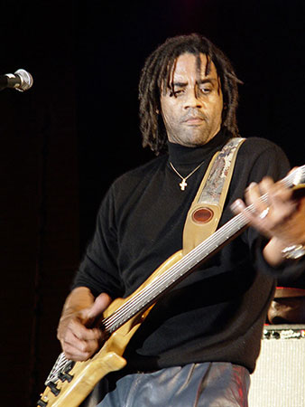 Keny Neal at Djurs Blues Festival, Denmark (2009)